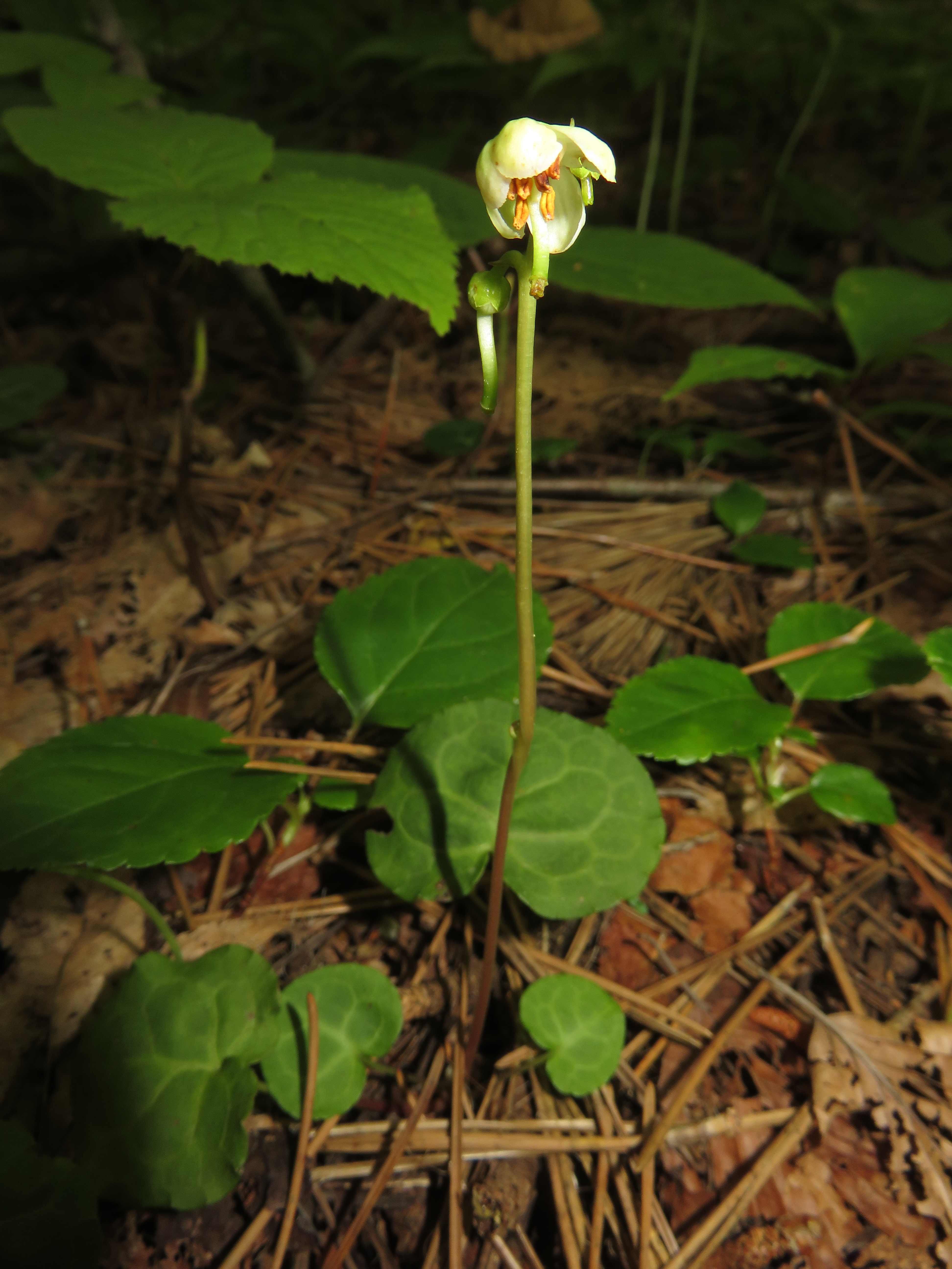 Pyrola renifolia, Shimokita area, Aomori pref., Japan